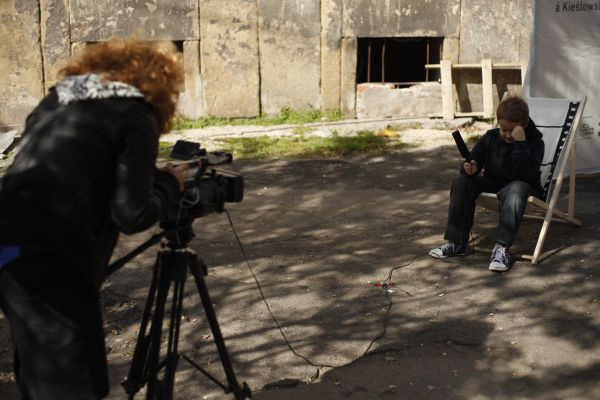 Sokołowsko Festival Hommage á Kieślowski 2011, "Gadające głowy"